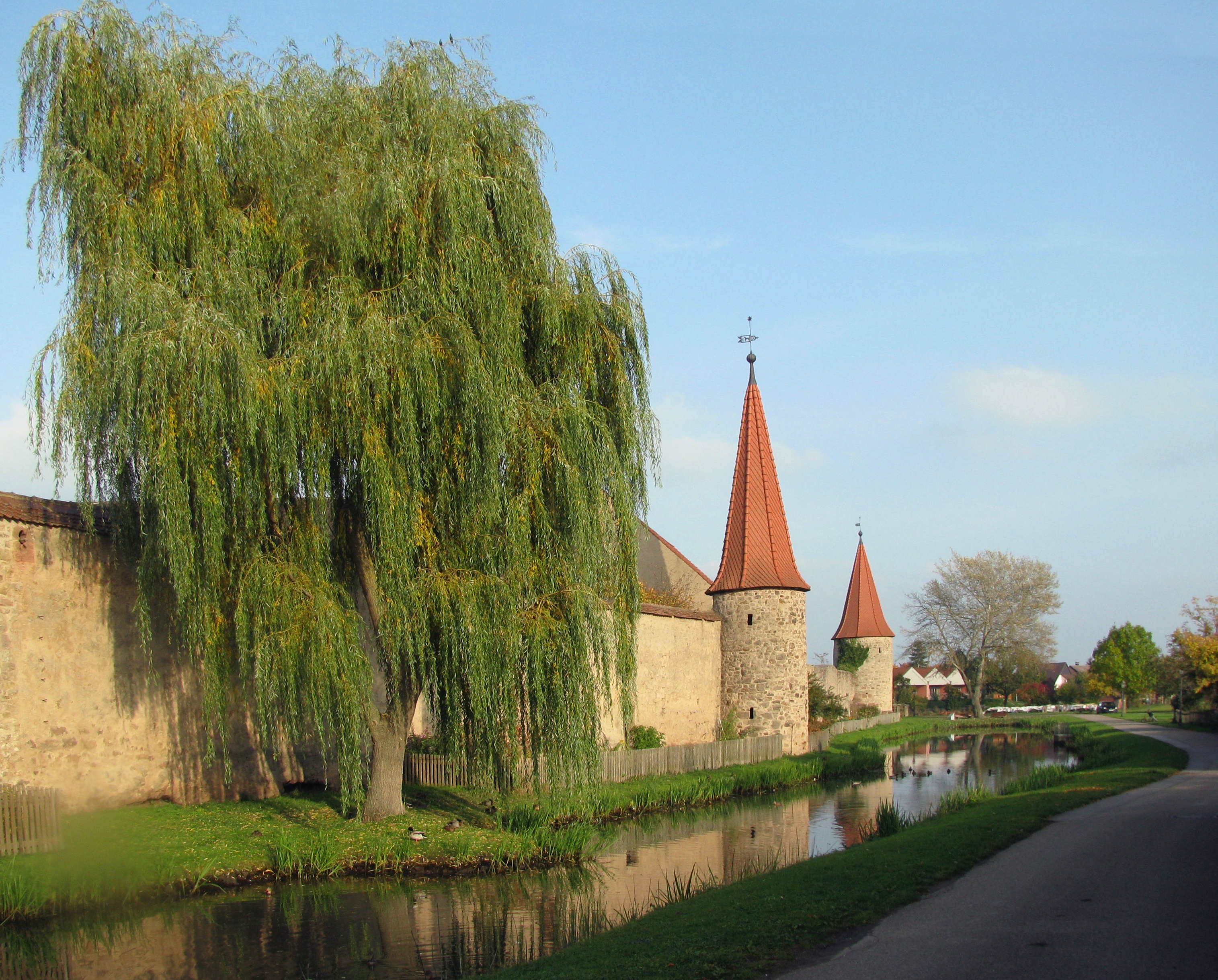 Citiywall in Merkendorf (Middle Franconia)